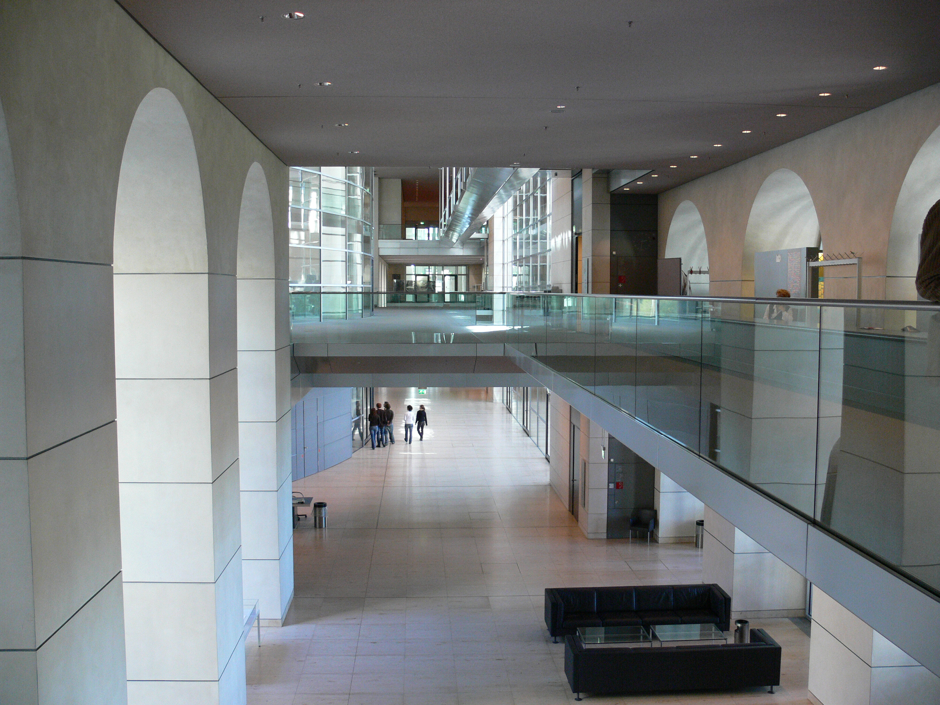 Hallway; Reichstag building, Berlin.